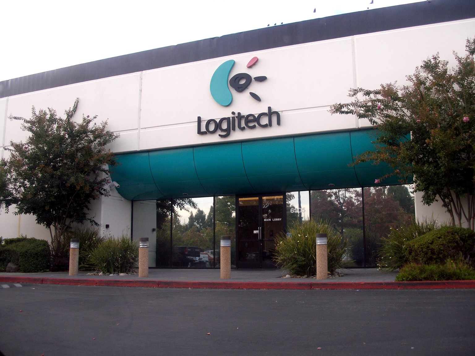 Logitech's previous North American office in Fremont.